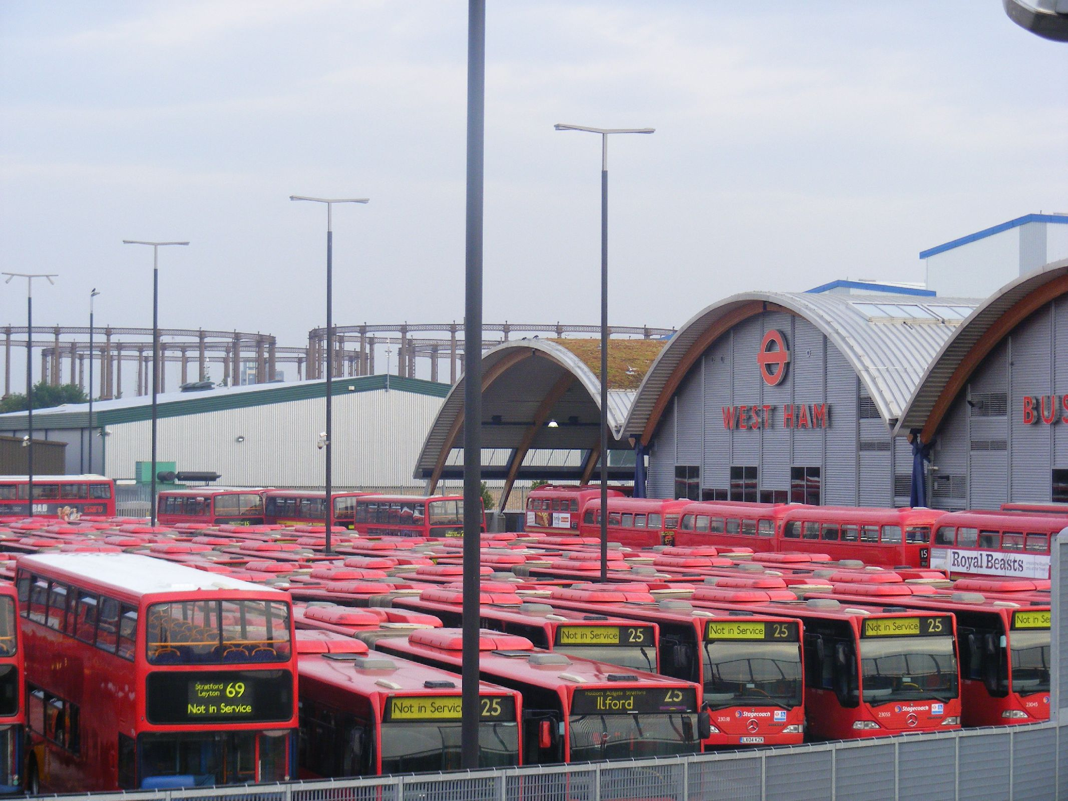 West Ham Stagecoach depot full to bursting of unwanted Citaro articulated buses removed from the 25 route after the route was converted to double deck buses supplied by First London.. In the background, some of the Routemasters used on the heritage route 15. These Citaros last operated on Friday 24 June 2011, First taking over next day. This scene was observable a few days later.